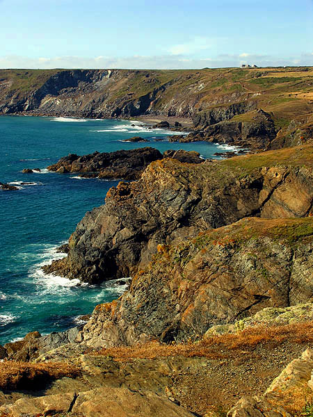 Cliffs north of Lizard Head. A view of the coastline between Lizard Head (behind the photographer) and Venton Hill Point in the background, looking more or less north along the coast.